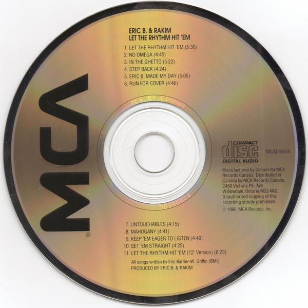 Compact disc of the Eric B. & Rakim album Let the Rhythm Hit 'Em. This is the Canada version of the album that was released in 1990 on MCA Records.